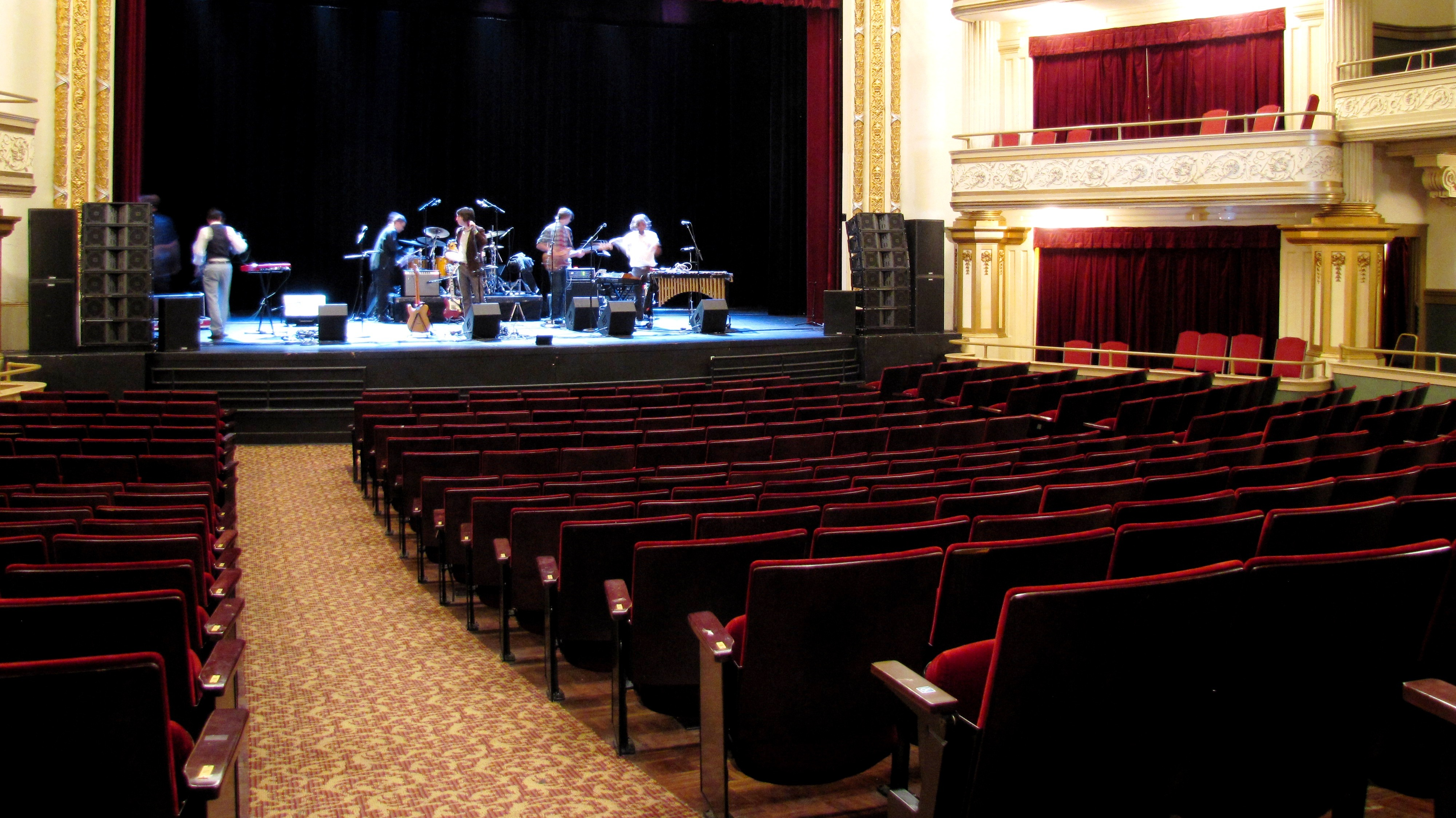 Stage and orchestra-level seats at the Bijou Theatre in Knoxville, Tennessee, USA.